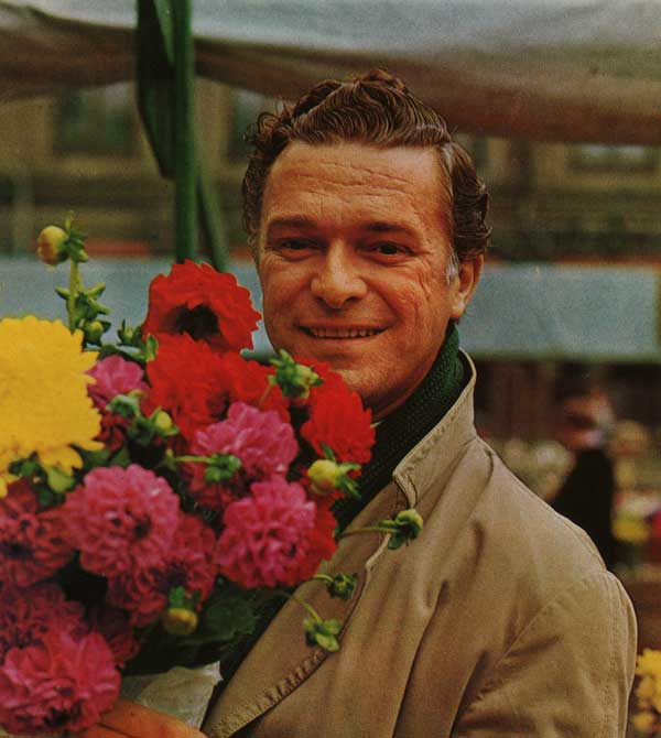 Swedish tenor Olav Gerthel